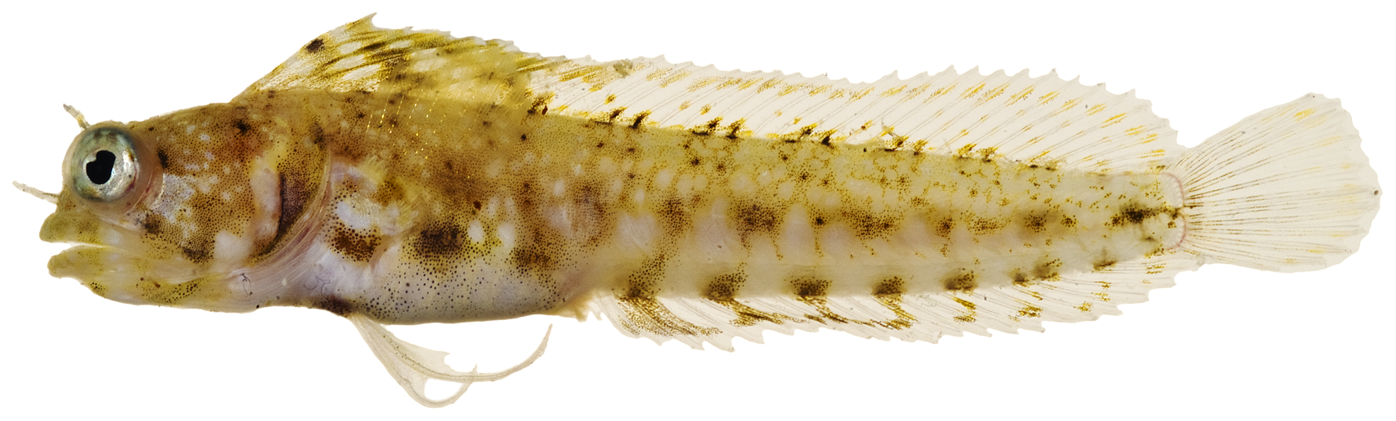 Emblemaria pandionis Evermann & Marsh, 1900—sailfin blenny, 37.0 mm SL, adult female. Photo by JT Williams.